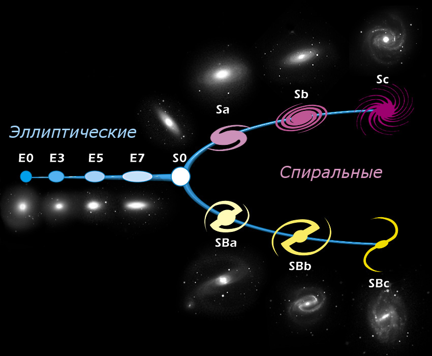 Galaxies are very important fundamental building blocks of the Universe. Some are simple, while others are very complex in structure. As one of the first steps towards a coherent theory of galaxy evolution, the American astronomer Edwin Hubble, developed a classification scheme of galaxies in 1926. Although this scheme, also known as the Hubble tuning fork diagram, is now considered somewhat too simple, the basic ideas still hold...